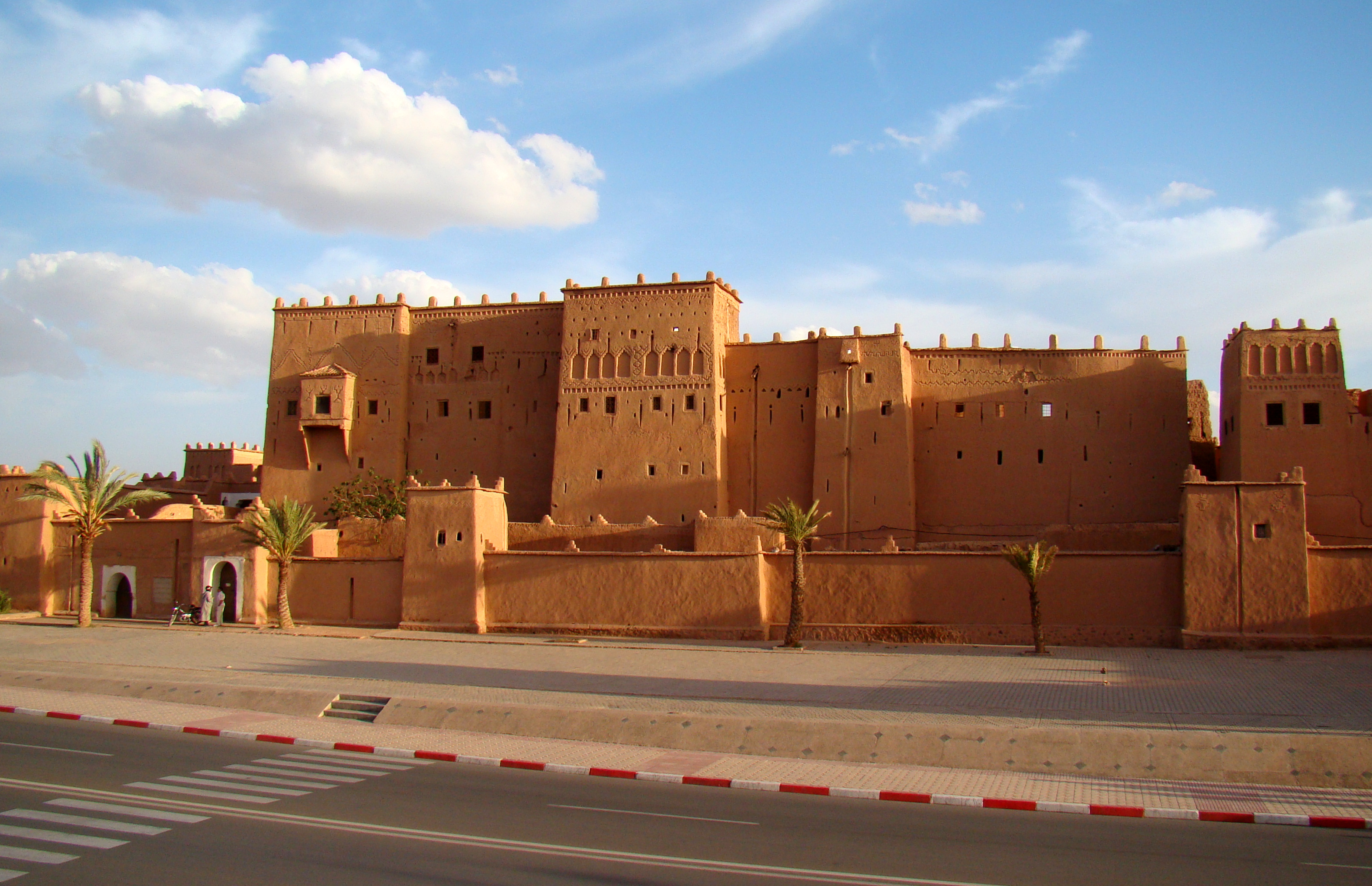 The Kasbah Taourirt on Avenue Mohammed V in Ouarzazate just before sunset in April.